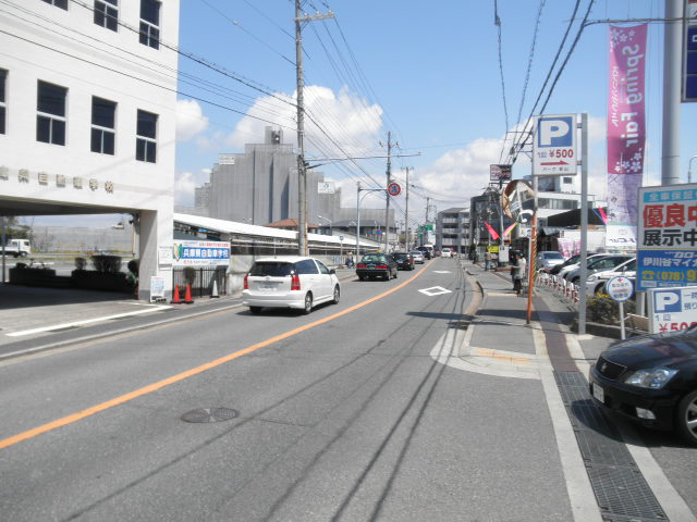 Ikawadanitown Arise Nishu-ku Kobecity Hyogoprefectural road 366 Arise Ohkura line